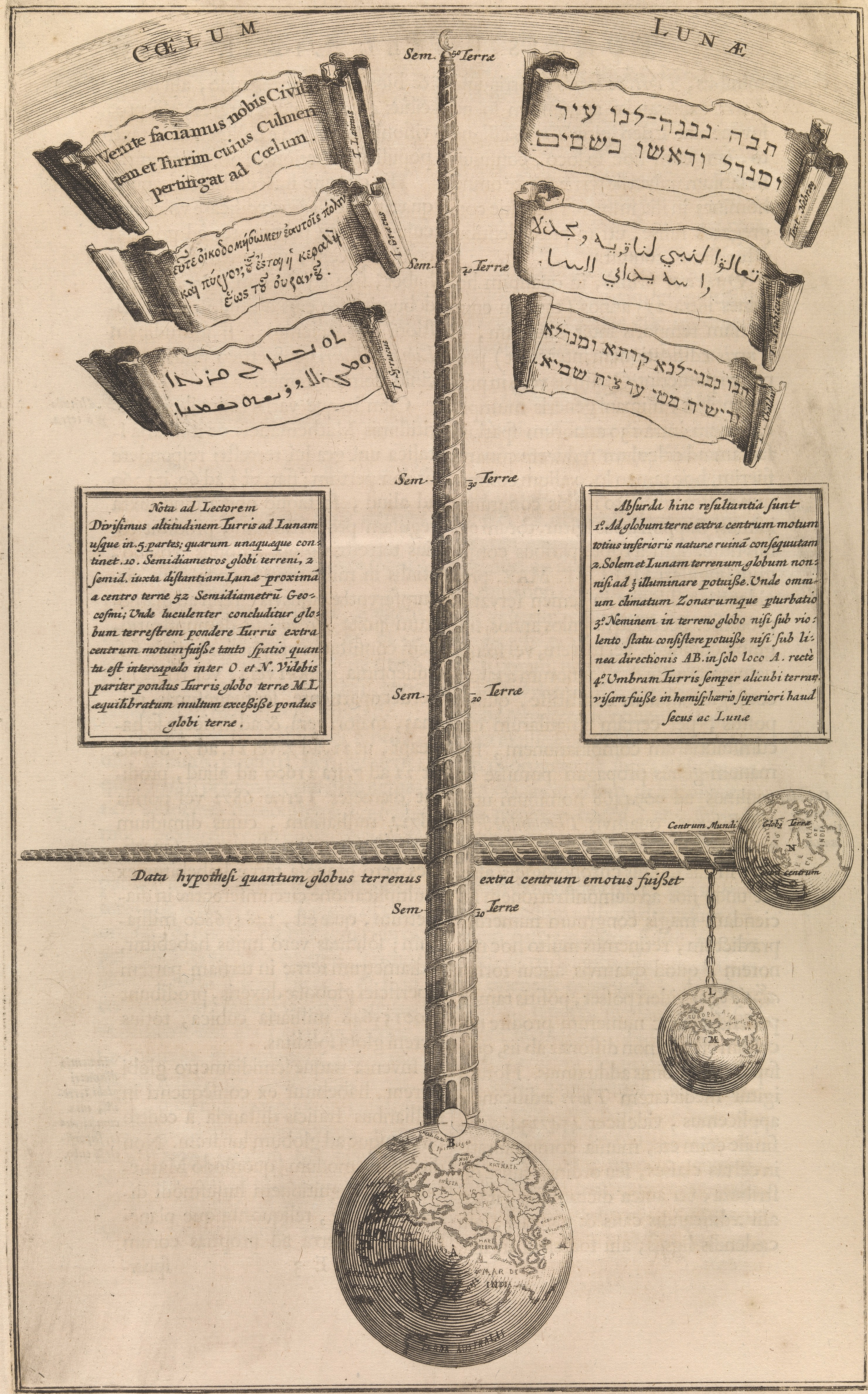 Illustration 'Coelum Lunae', depicting three globes, two of which have Towers of Babel sprouting from them, with scrolls in various languages across the top of the image. From the manuscript: "Turris Babel, sive archontologia qua primo priscorum post diluvium hominum vita, mores rerumque gestarum magnitudo, secundo turris fabrica civitatumque extructio, confusio linguarum, et inde gentium transmigrationis ... describuntur et explicantur" by Athanasius Kircher Amsterdam : Ex officina Janssonio-Waesbergianna, 1679. Archives & Manuscripts